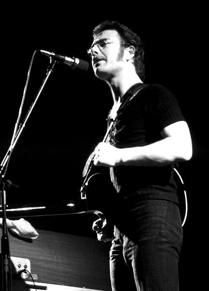 Robert Fripp, playing with King Crimson